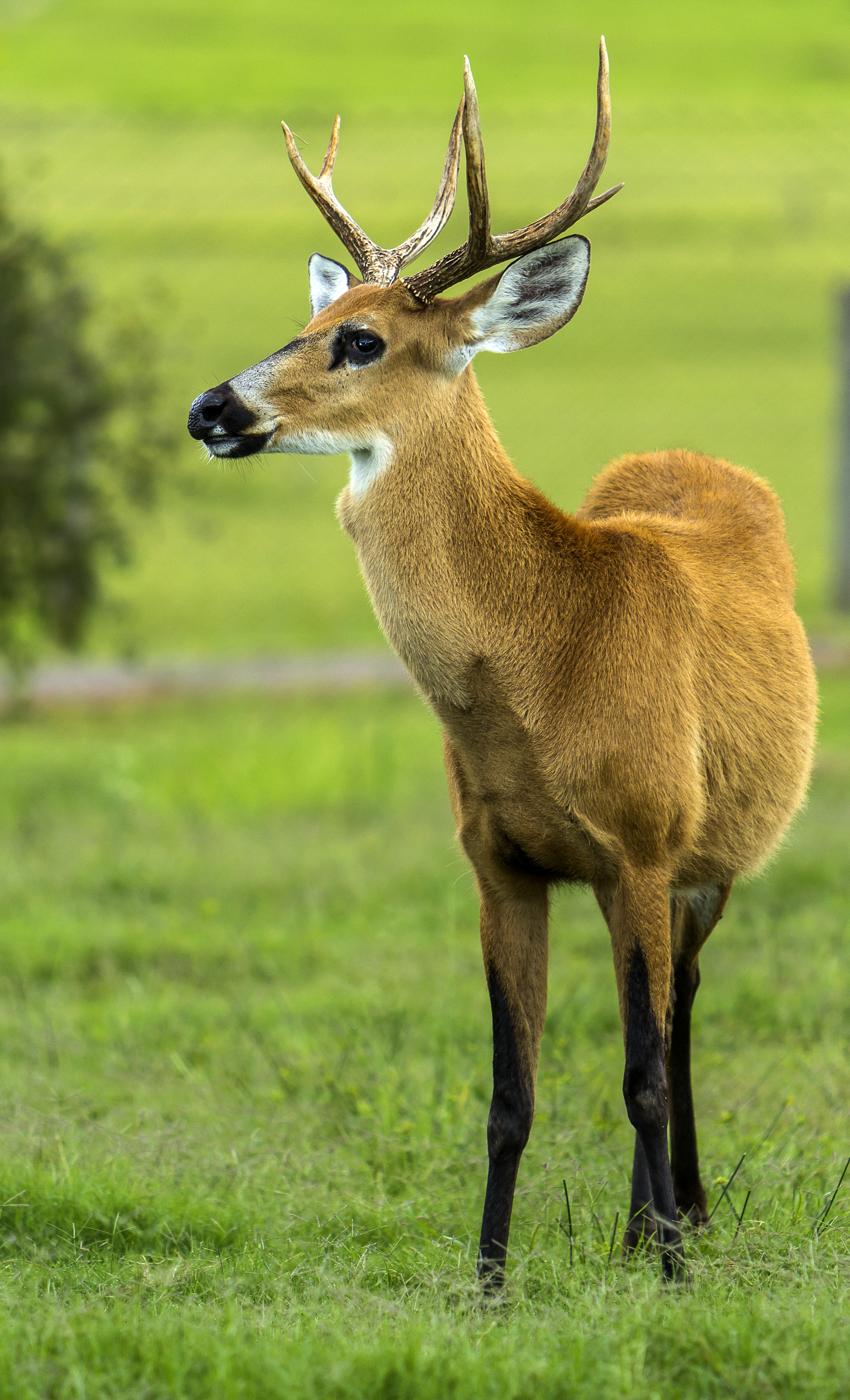 This surprisingly shy and secretive deer is actually the largest native deer species in South America. Marsh deer have large, primarily ornamental antlers, which are usually impressively forked, growing to about 60 centimetres in length and weighing, on average, about two kilograms. They are shed irregularly and may be retained for up to two years. Marsh deer also have well-developed hindquarters, making them good at jumping, which is the fastest way to move in water.The marsh deer has a shaggy, reddish chestnut coloured coat, with paler undersides of the neck and belly. The muzzle and lips are black, as are the lower legs. The eye is surrounded by a faint white ring and the large ears are lined with white hair. Marsh deer have long, broad hooves that are particularly adapted to the marshy environment, as they are joined by a special membrane and can spread out, giving the hooves a greater surface area, to prevent the deer from sinking into swampy ground.